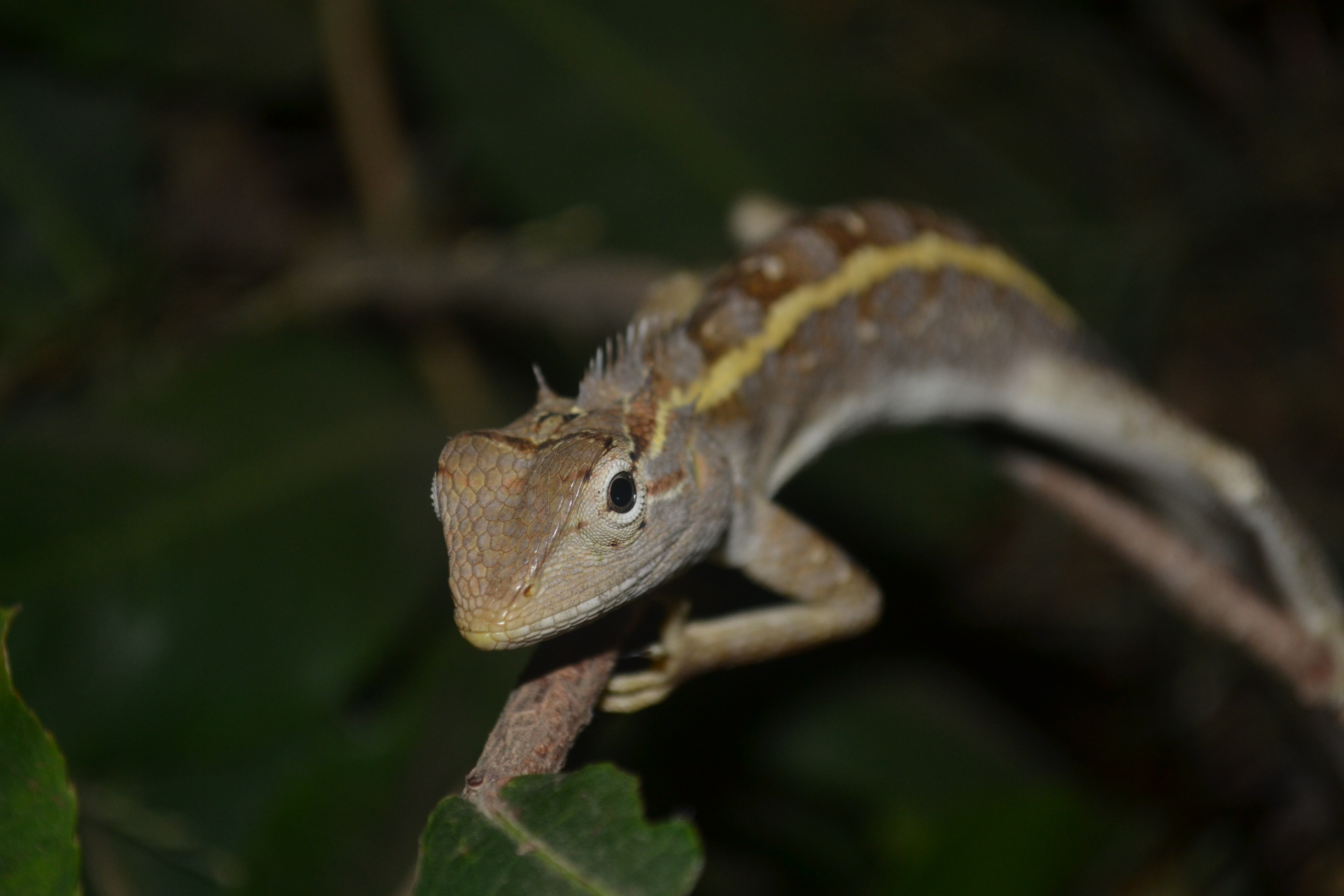 A female Calotes Versicolor .